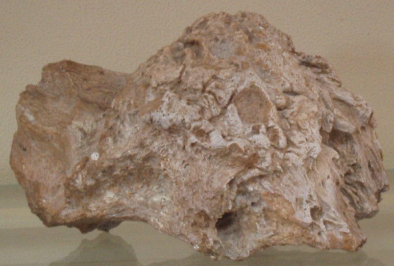 Skull bone of a Majungatholus specimen (now synonymised with Majungasaurus) on display at Gallery of Paleontology and Comparative Anatomy, French National Museum of Natural History, Paris.